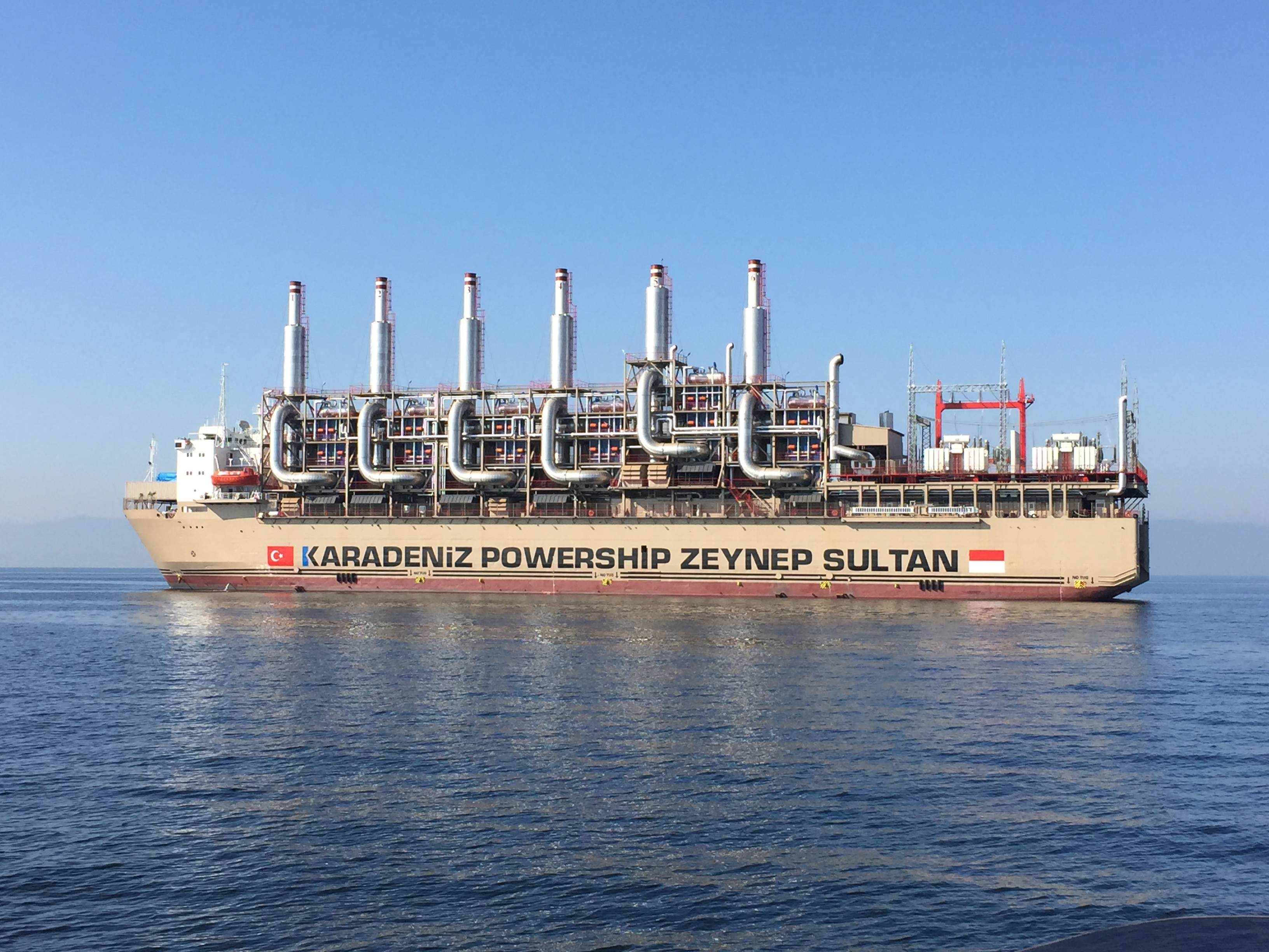 Karadeniz Powership Zeynep Sultan on her way from Istanbul, Turkey to Jalarta, Indonesia.